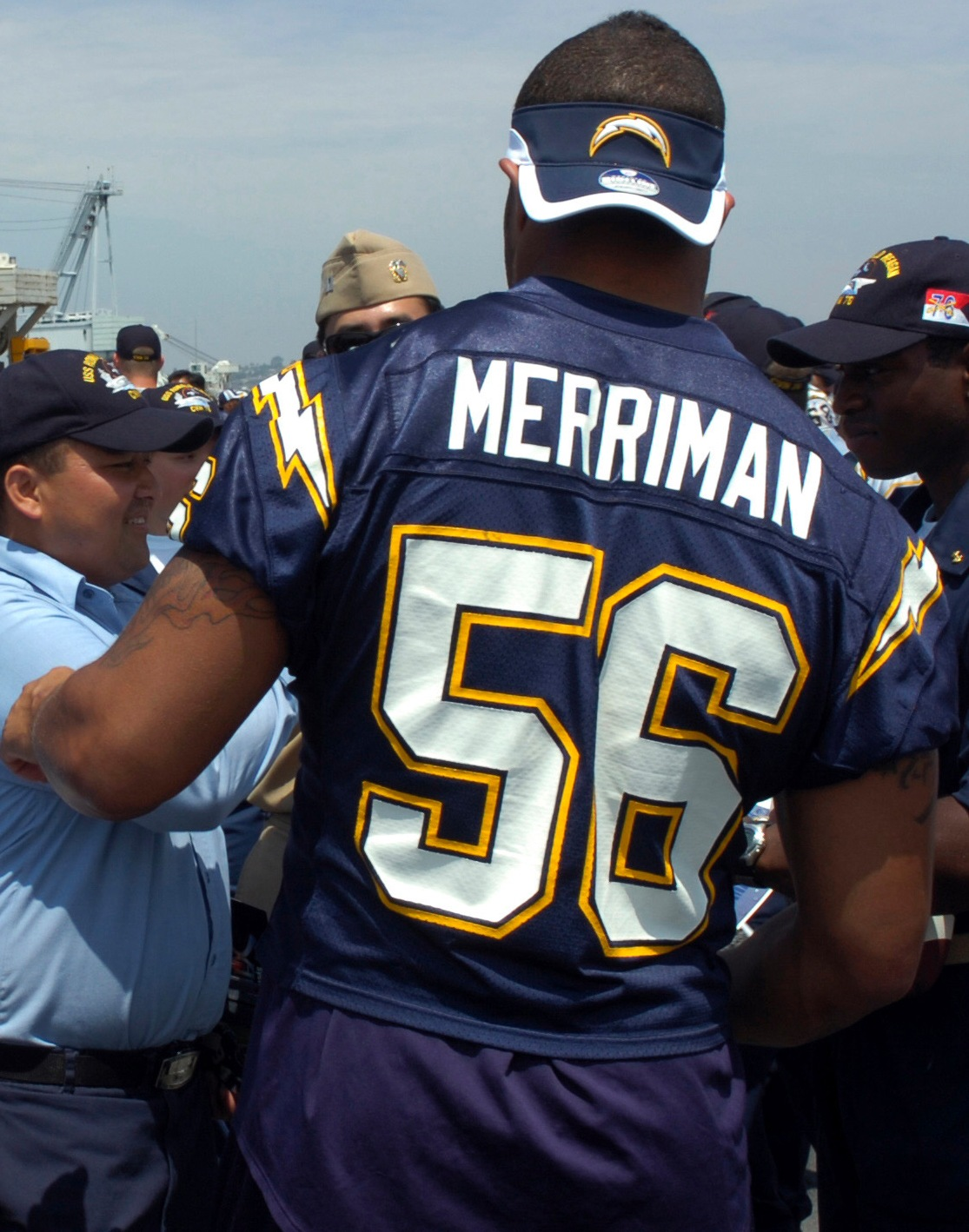 Outside Linebacker for the National Football League San Diego Chargers Shawne Merrriman (56) signs autographs for Sailors on the flight deck aboard USS Ronald Reagan (CVN 76) in San Diego, Calif., Aug. 11, 2006. The Chargers held practice on the flight deck of the Navy's newest nuclear-powered aircraft carrier in preparation for their first pre-season game against the Green Bay Packers. (U.S. Navy photo by Mass Communication Specialist 3rd Class Christopher D. Blachly) (Released)